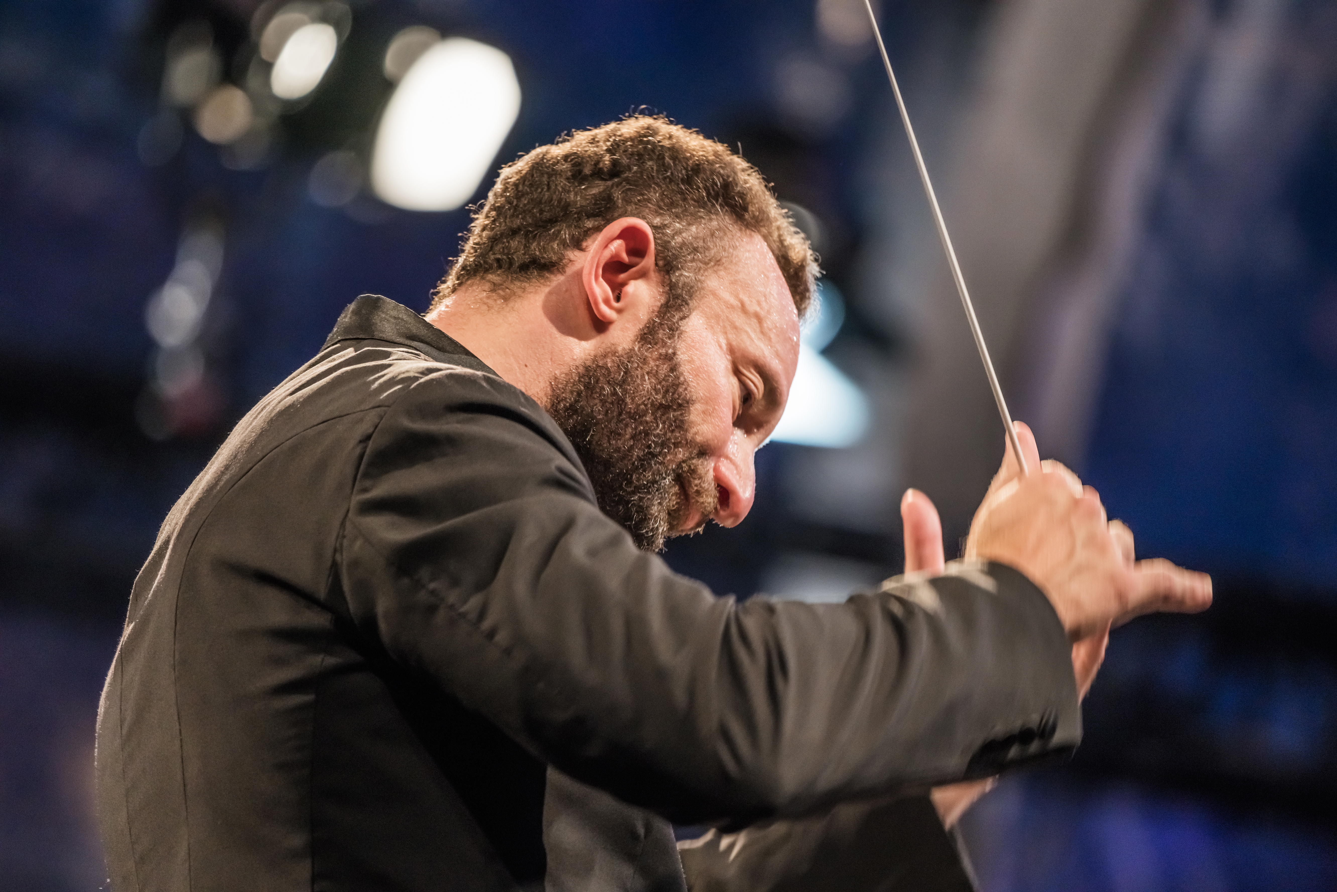 On 24 August 2019 the Berlin Philharmonics gave an open air concert at Brandenburg Gate in Berlin, with an audience of nearly 35,000 people. The conductor was Kirill Petrenko from Russia. The orchestra performed Beethoven's Symphony No. 9 D minor Op. 125.